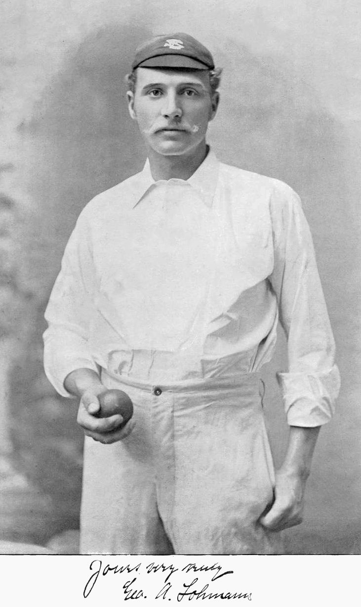 Original Famous Cricketers, #006 George Lohmann, Surrey, Cricket 1895